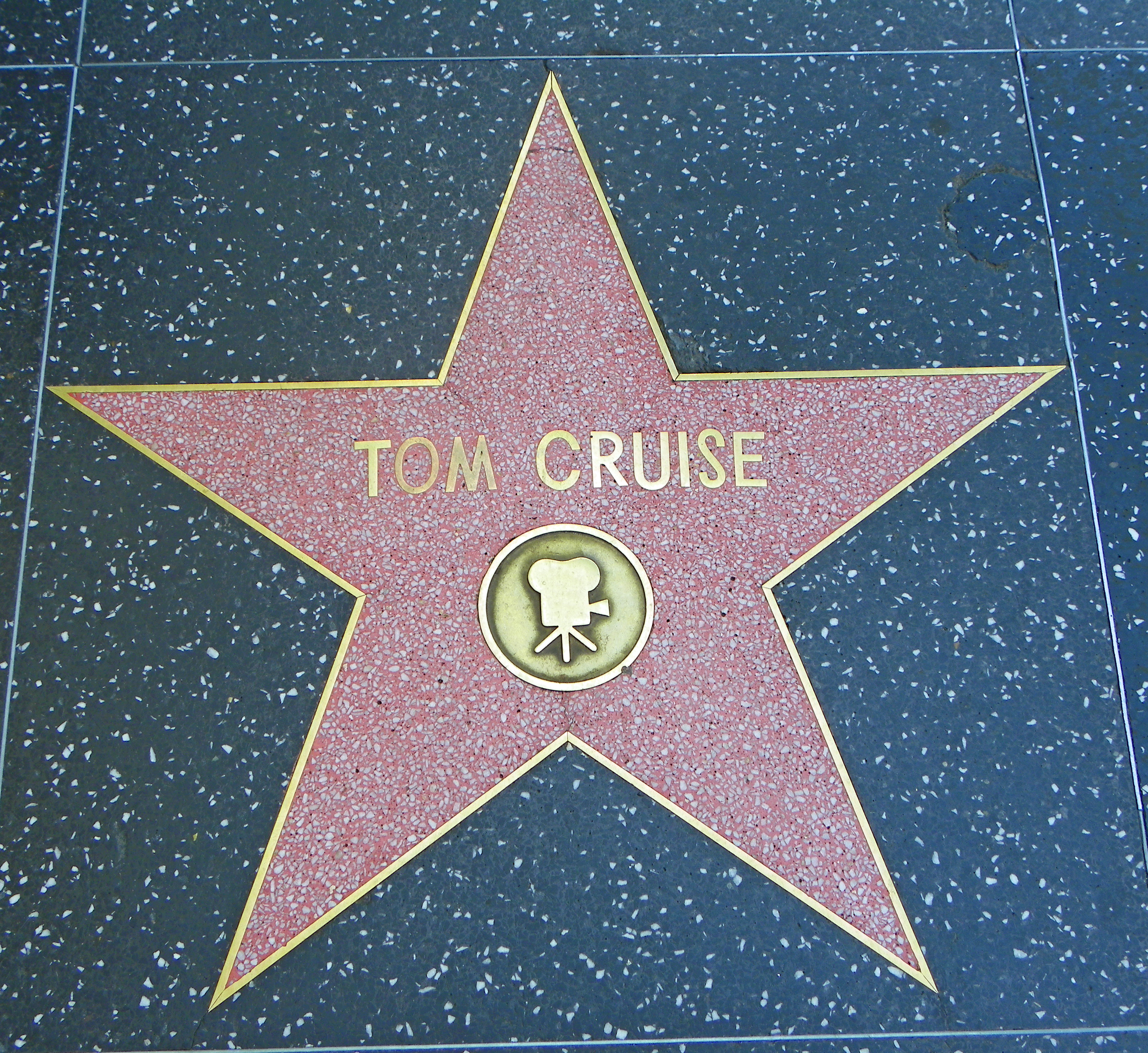 Tom Cruise's star on the Hollywood Walk of Fame in Hollywood, Los Angeles, California